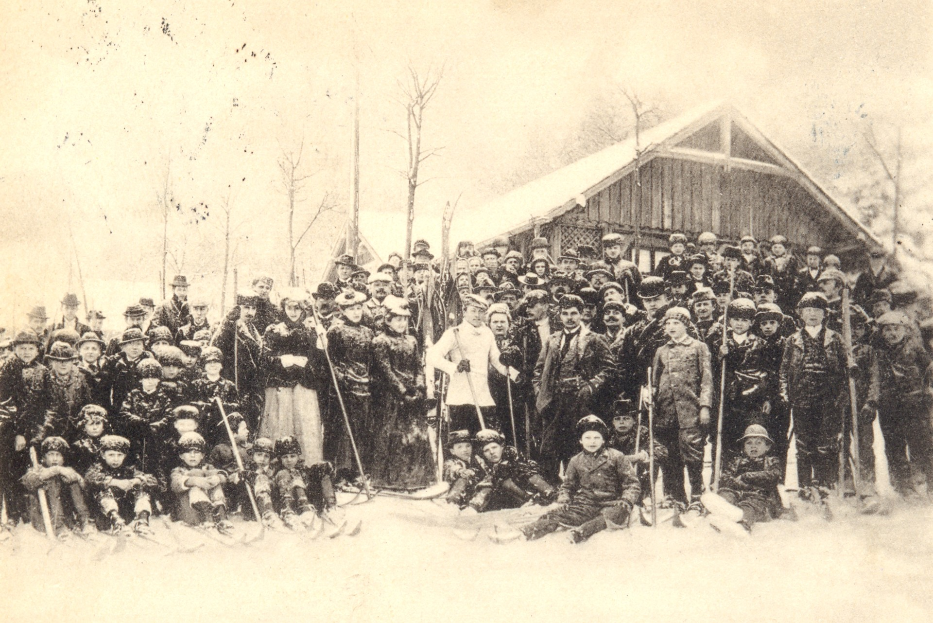 Ski racing in 1902 in front of the pub Na Kozinci in Jilemnice